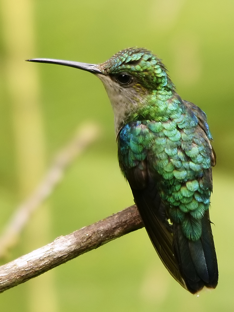 Female Violet-crowned Woodnymph at Rara Avis near Las Horquetas, Costa Rica.